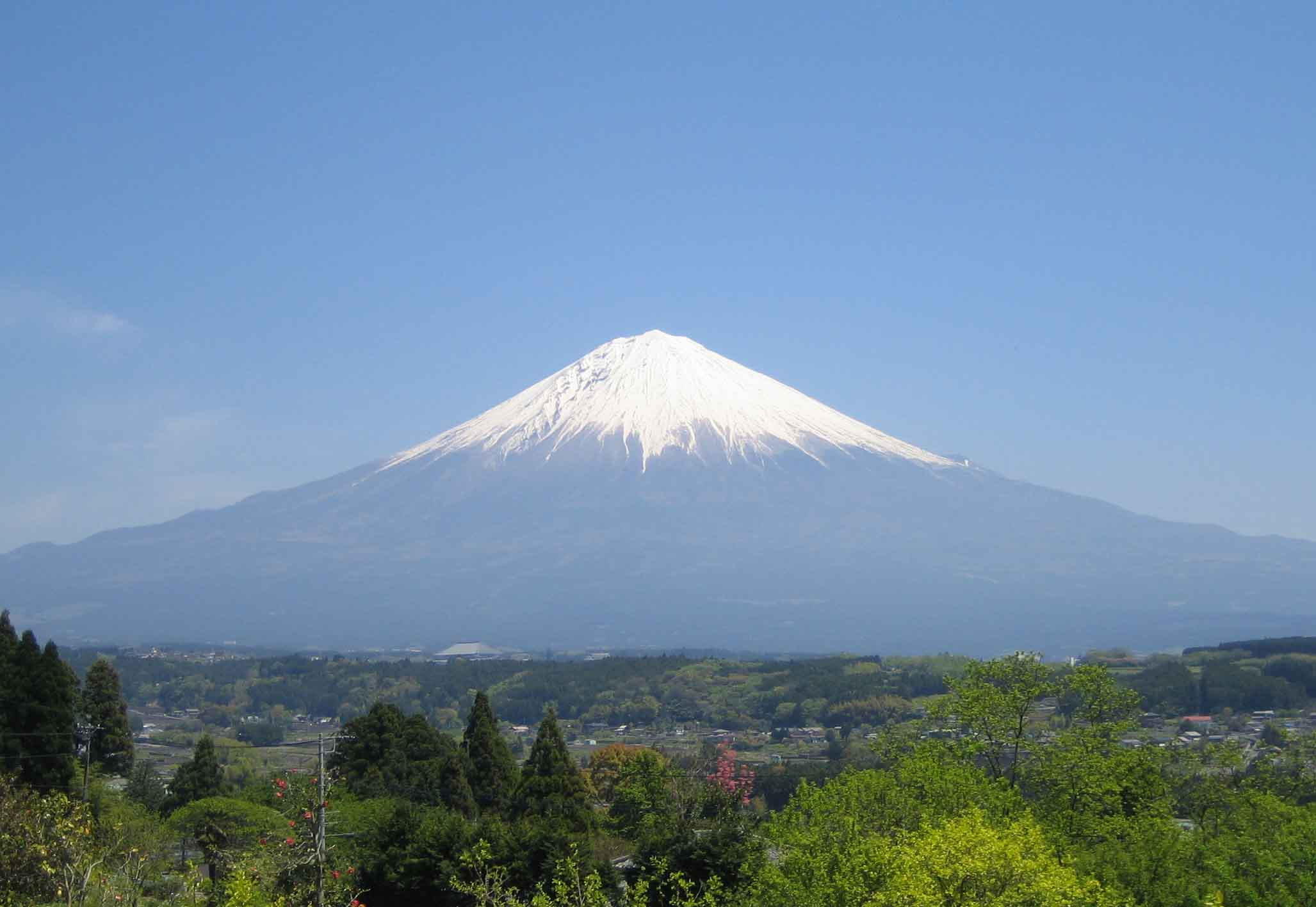 Mount Fuji seen from the SW. Taken from Kamiyuno, Fujinomiya, Shizuoka.